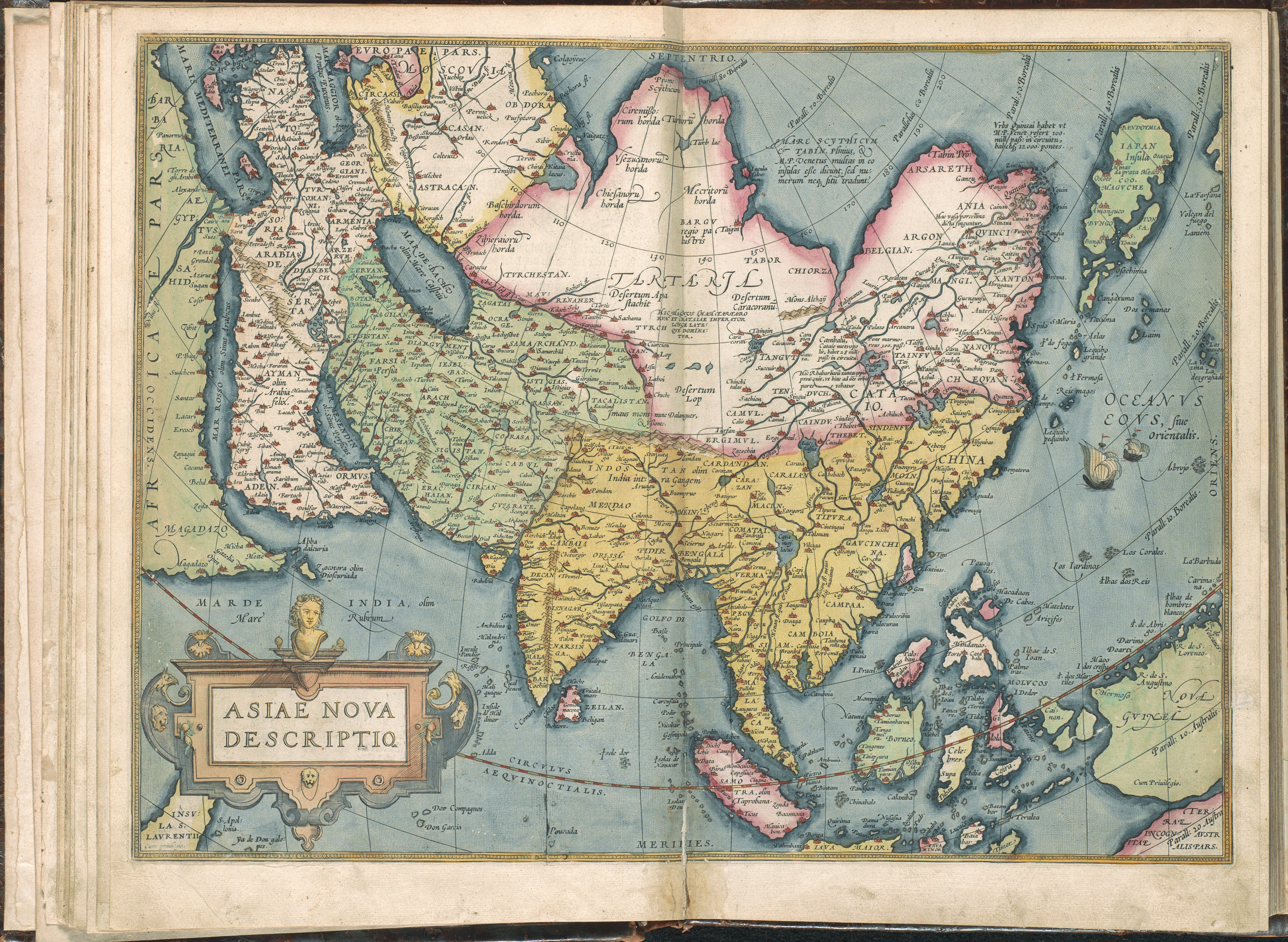 Plate '005av-005br' from the Atlas Ortelius by Abraham Ortelius. Original edition from 1571 with additions from 1573, 1579 and 1584. Complete description of this work (in Dutch) is available here.